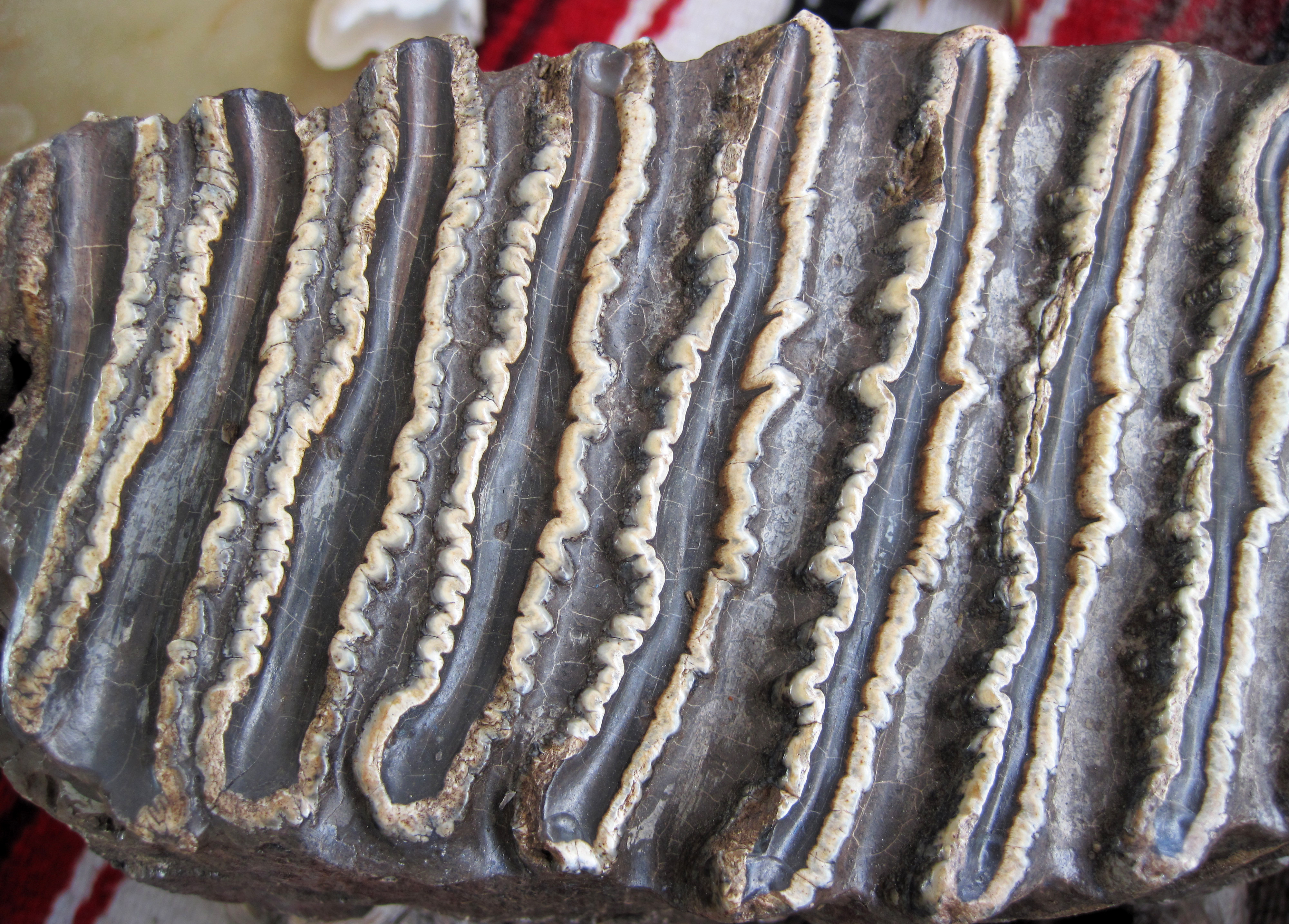 Mammuthus sp. - fossil mammoth tooth from the Pleistocene of America. This is the occlusal surface (= chewing surface) of a molar from a mammoth - a type of extinct elephant. Mammoths were common in North America during the Pleistocene Ice Age. They are descended from Old World mammoths that crossed into North America via the Bering Land Bridge between far-eastern Siberia and Alaska. The elongated, worn, slightly irregular ridges of this molar occlusal surface functioned to grind up vegetation. Classification: Animalia, Chordata, Vertebrata, Mammalia, Proboscidea, Elephantidae Locality: undisclosed, but possibly from Florida, USA